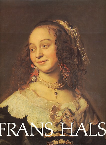 Detail of portrait of Isabella Coymans used as the cover of Seymour Slive's catalog of Frans Hals paintings in 1989. Title Frans Hals, by Seymour Slive (editor), with contributions by Pieter Biesboer, Martin Bijl, Karin Groen and Ella Hendriks, Michael Hoyle, Frances S. Jowell, Koos Levy-van Halm and Liesbeth Abraham, Bianca M. Du Mortier, Irene van Thiel-Stroman, Prestel-Verlag, Munich & Mercatorfonds, Antwerp, 1989, ISBN 3791310321